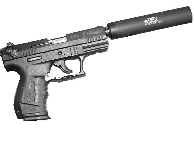 Gemteck Outback Suppressor on Walther p22